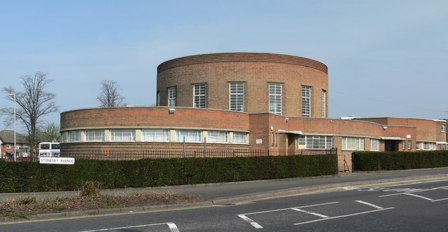 Southfields Branch Library, Saffron Lane, Leicester, seen from the southwest. Designed by the same architects as the St Barnabas Branch Library. Southfield Library is nicknamed the Pork Pie Library. Part of the building was originally a child welfare clinic.